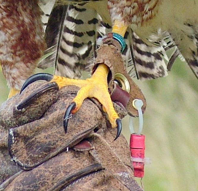 An unidentified hawk during a falconry demonstration. Detail showing a transmitter used to locate the bird if it flies off attached to the bird's jess.